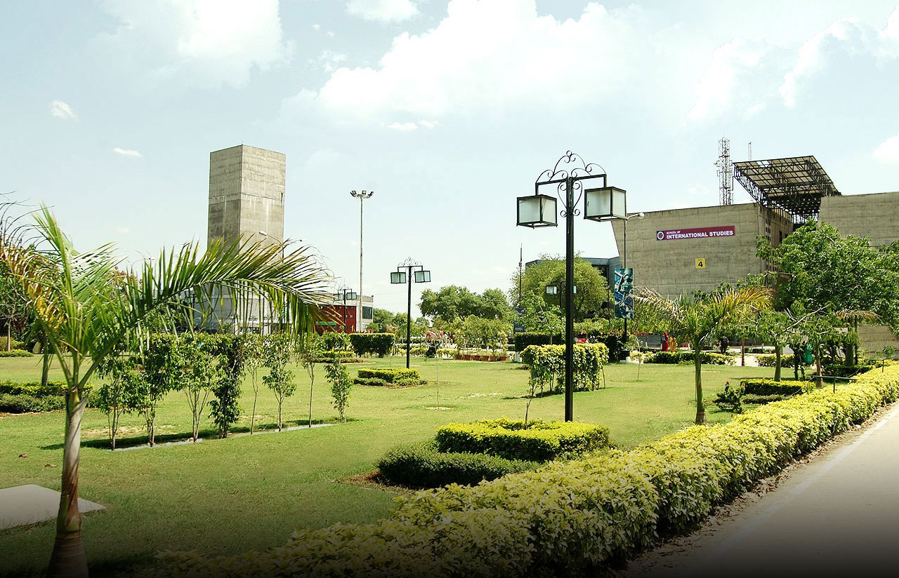 Picture of Lovely Professional University Sir Baldev Raj Mittal Park